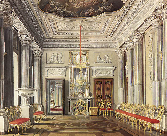 The Marble Dining Room of the Gatchina Palace, by Antonio Rinaldi and Vincenzo Brenna. The watercolour by Edward Gau, 1870s.